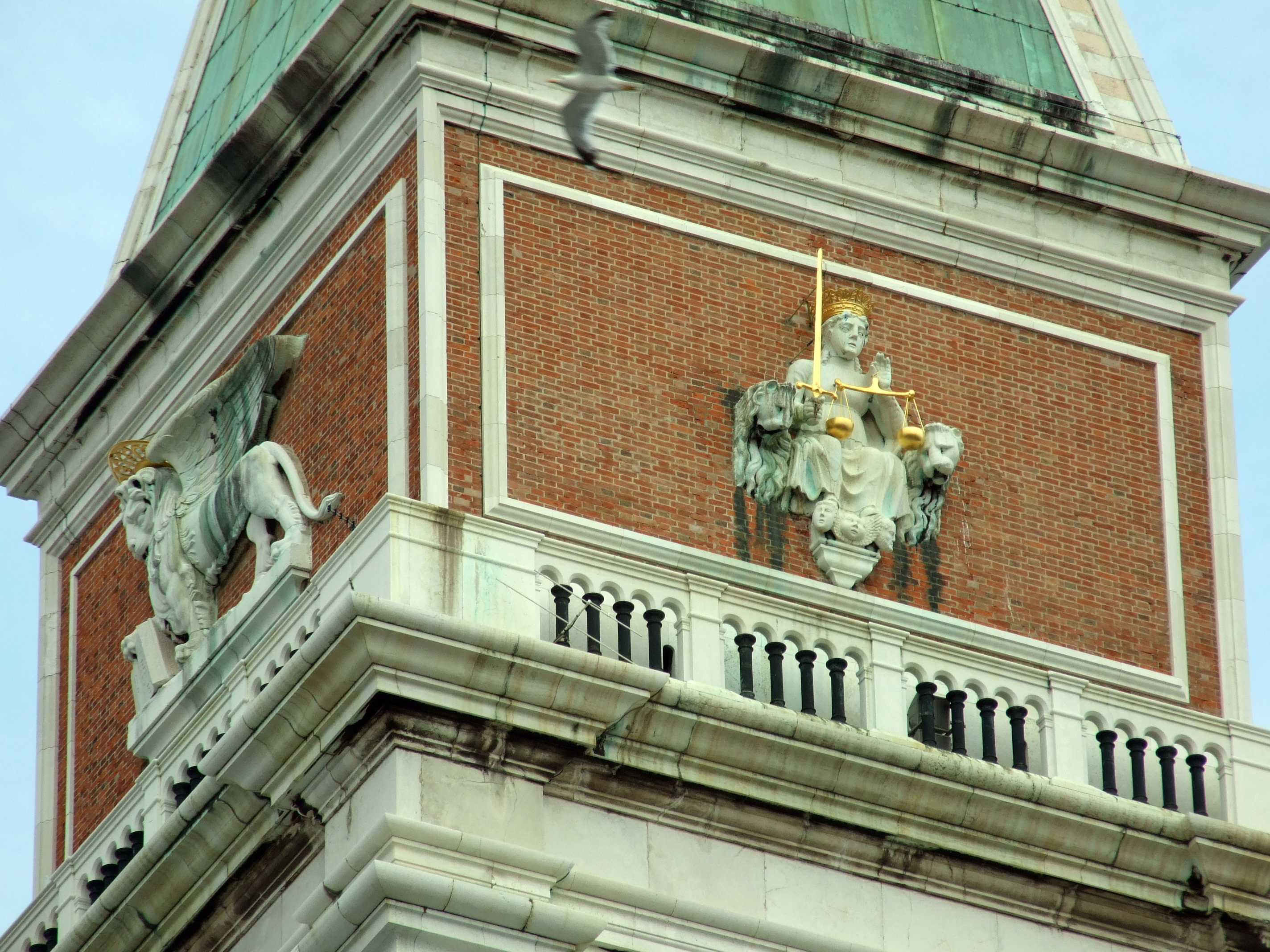 Campanile of St. Mark's Basilica, Venice